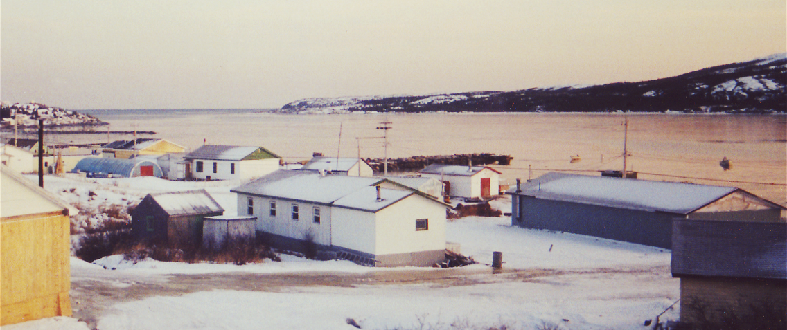 View of Makkovik and harbour at sunset